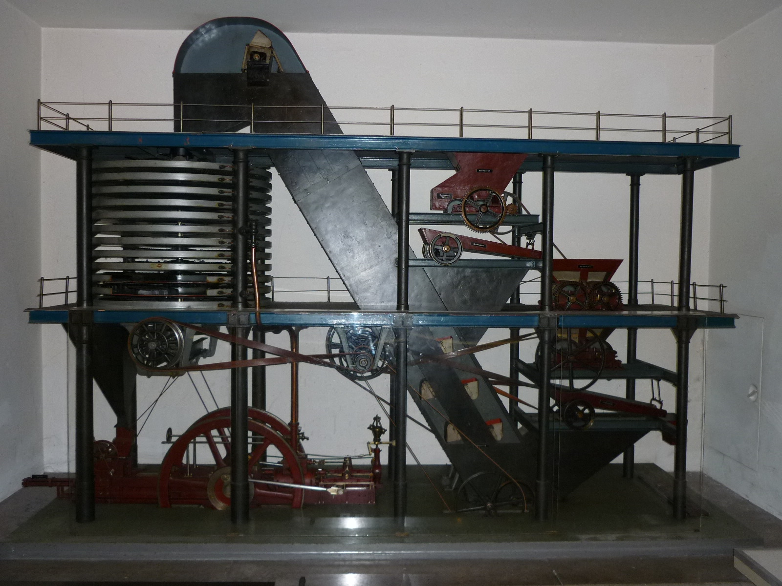 Model of a briquette press, shown in the German Museum, Munich